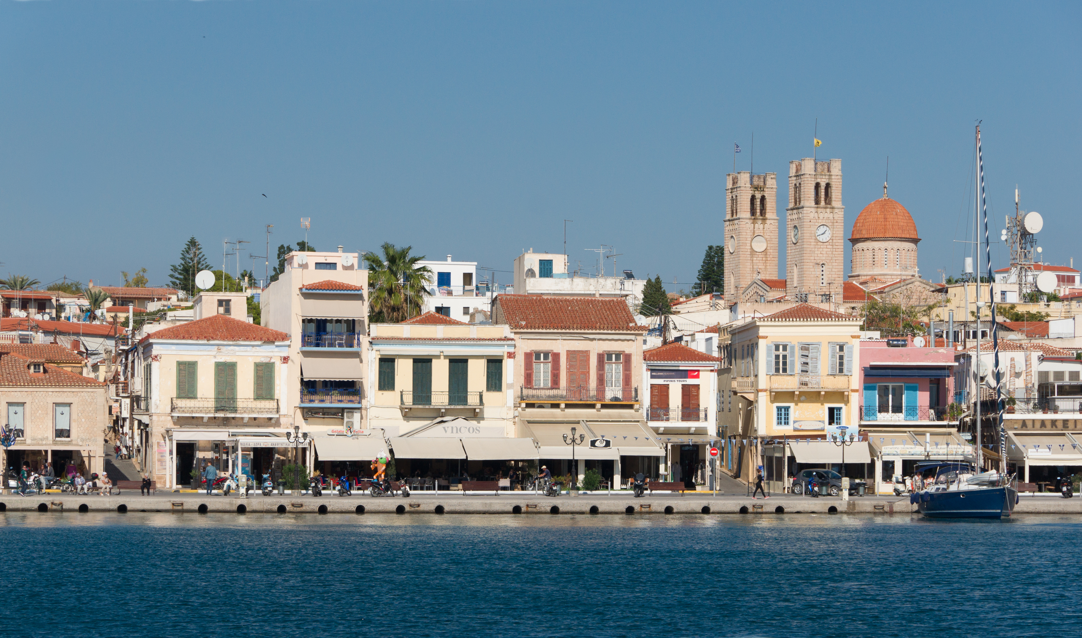 View of the Harbor of Ægina, Greece.